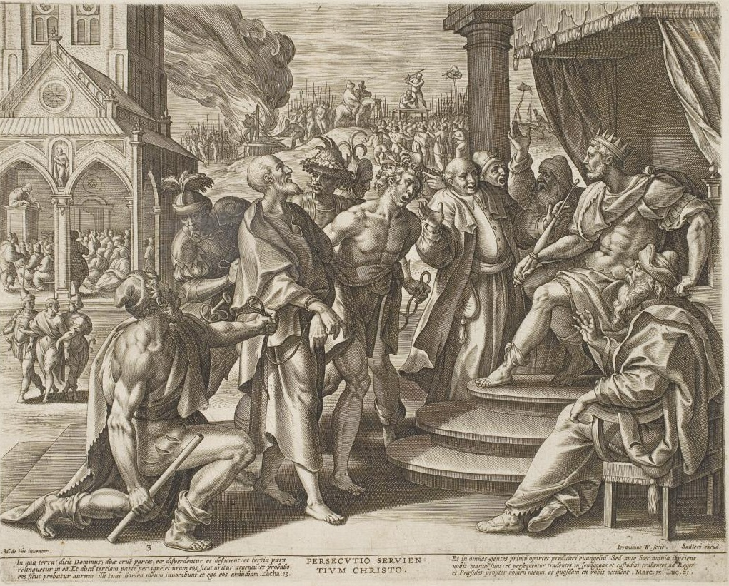 Persecuito Servientum Christo (The Persecution of the Servants of Christ)